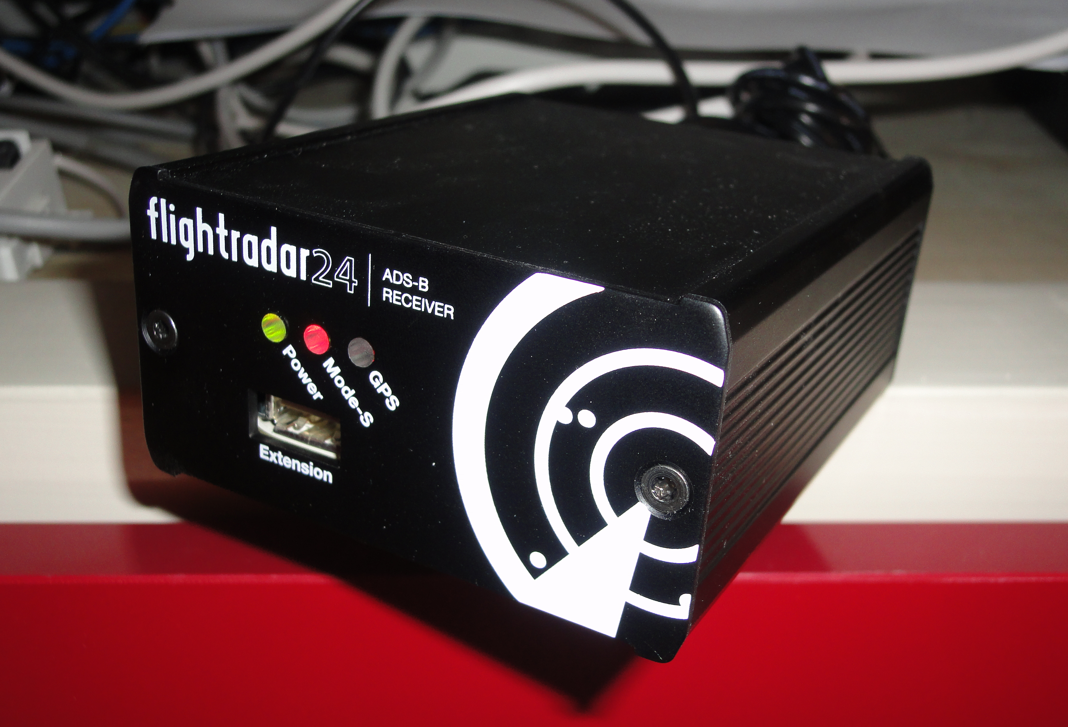 A ADS-B receiver with GPS capability used to feed data to Flightradar24 website